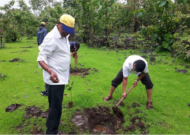 Tree Plantation carried out by volunteers